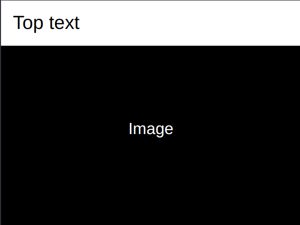 The more current image macro format, used since 2017.